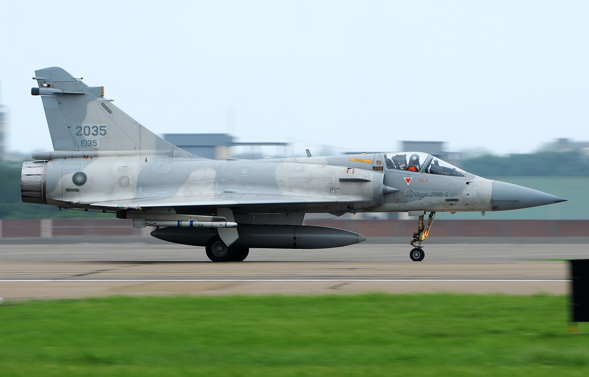 Republic of China Air Force Dassault Mirage 2000-5Di